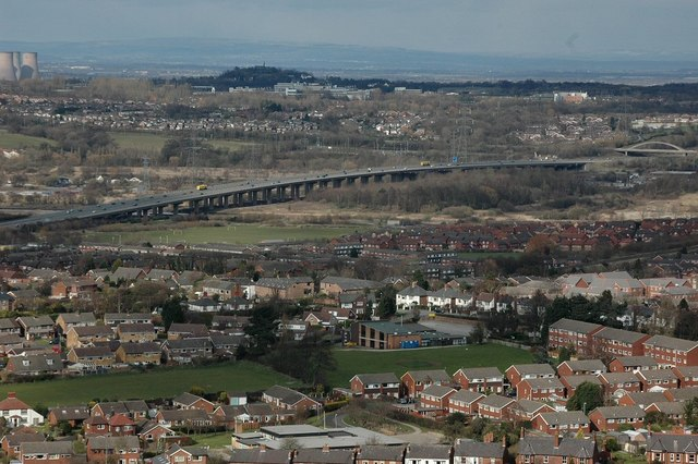 M56 motorway viaduct View towards Runcorn showing the M56 motorway viaduct.